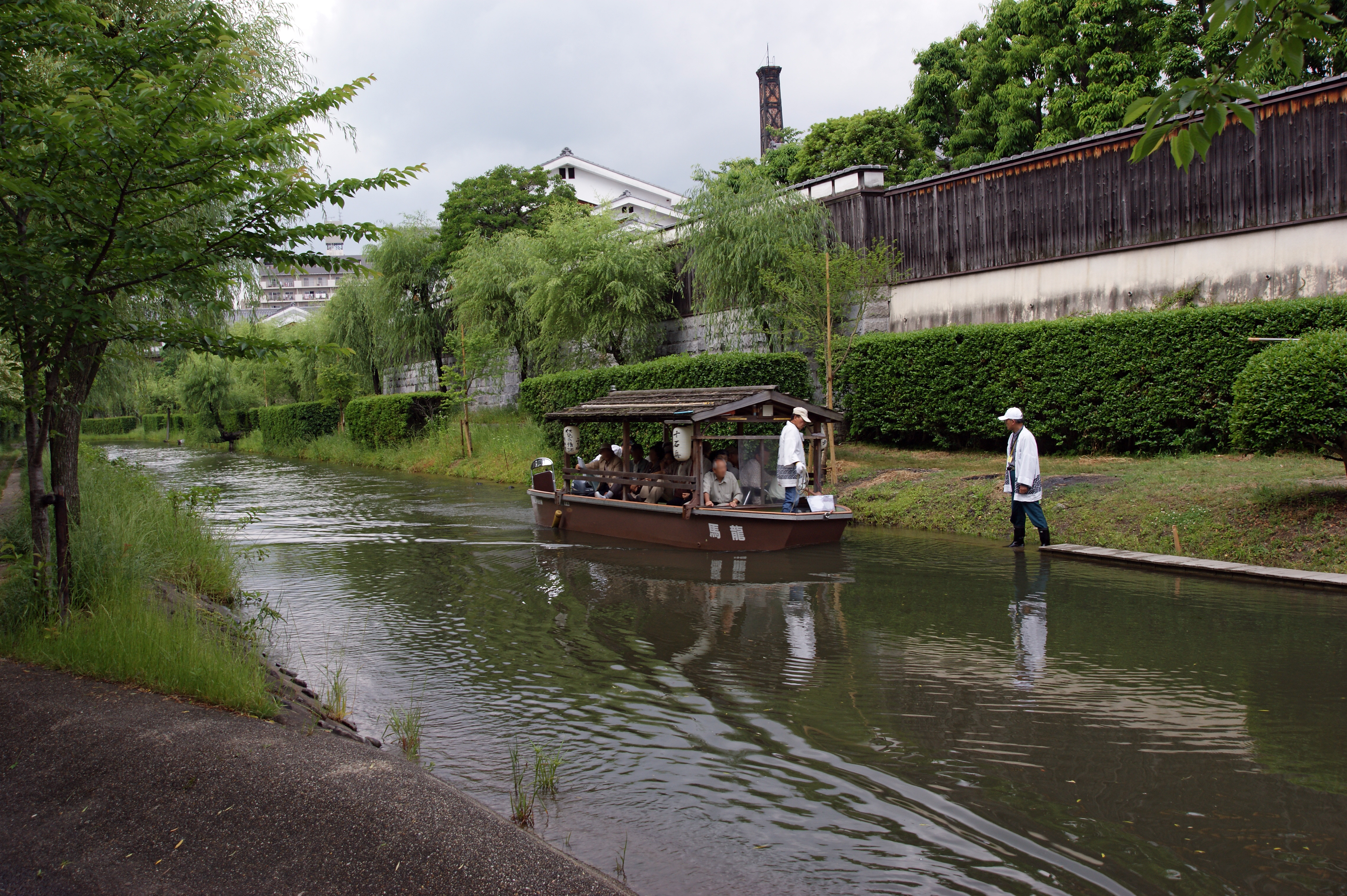 Jukkokubune on Ujigawa-haryu in Fushimi, Kyoto, Kyoto prefecture, Japan